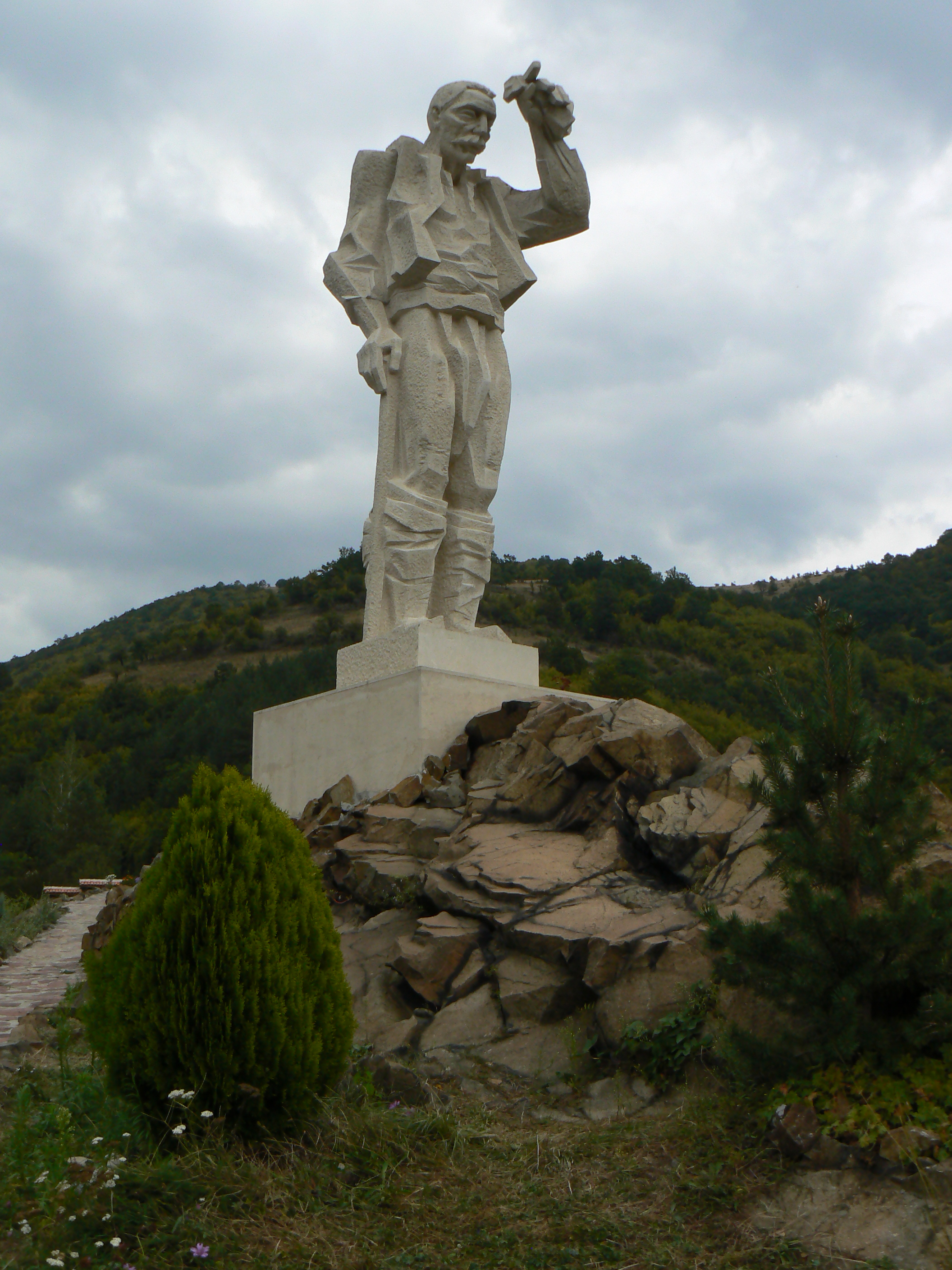 The memorial of Ivan Vazov's literary character Dyado Yotso near village Ochindol, Bulgaria. Sculptors: George Tishkov and Monika Igarenska